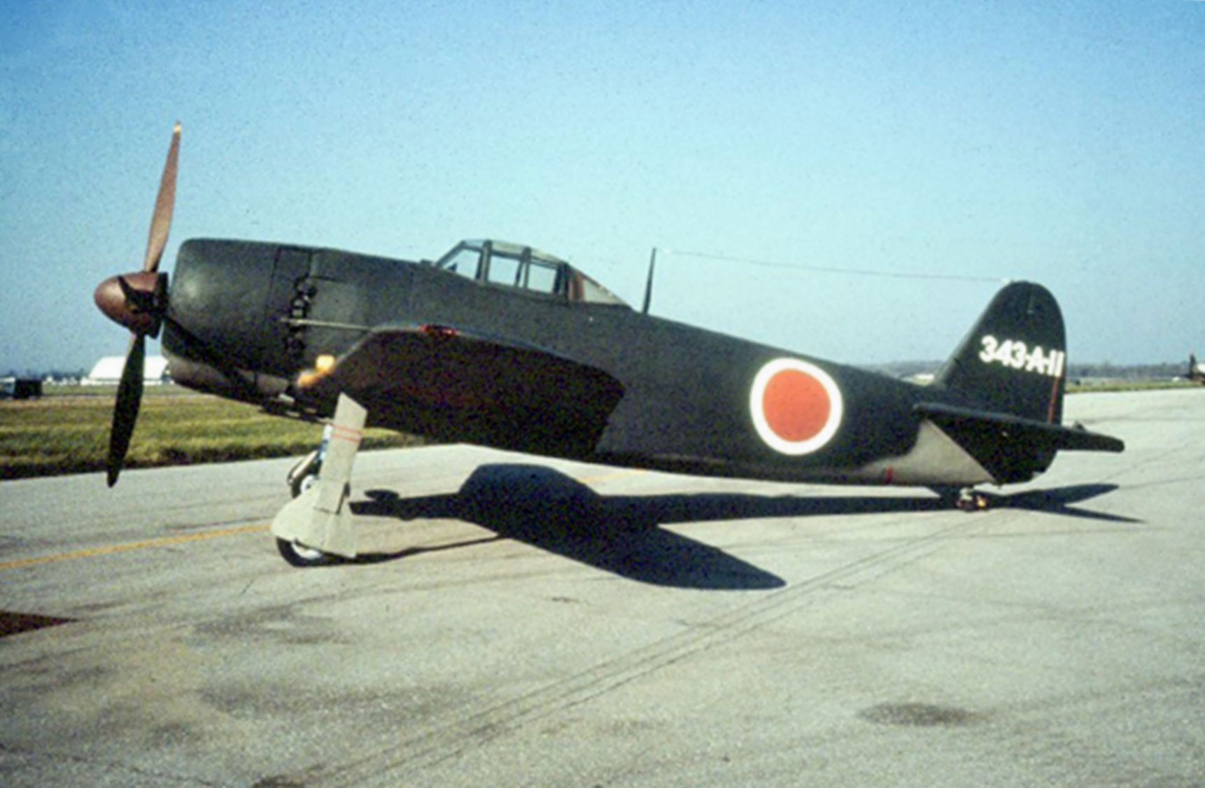 A Kawanishi N1K2-Ja Shiden Kai ("George") prior to restoration at the National Museum of the United States Air Force.